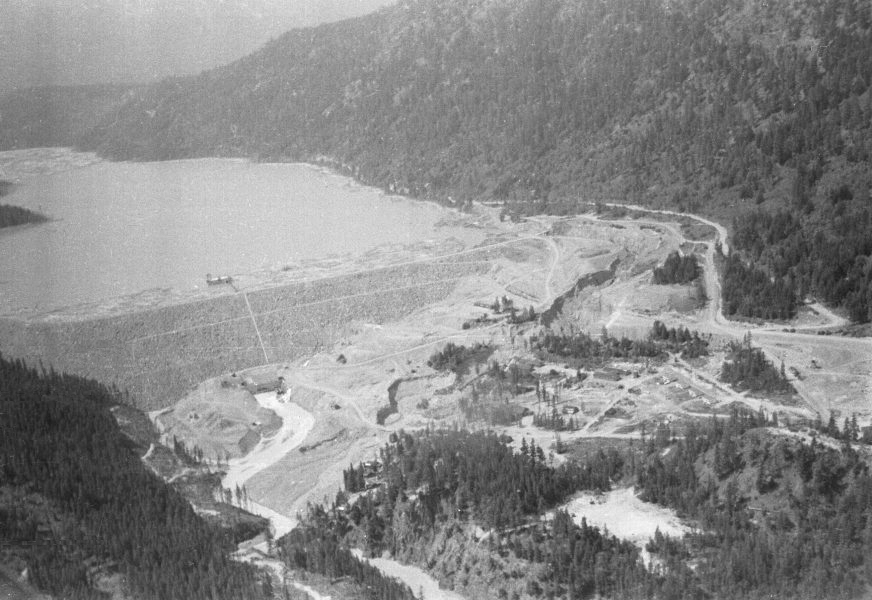 Image was taken by my father Endre Cleven c.1954; it is also online at